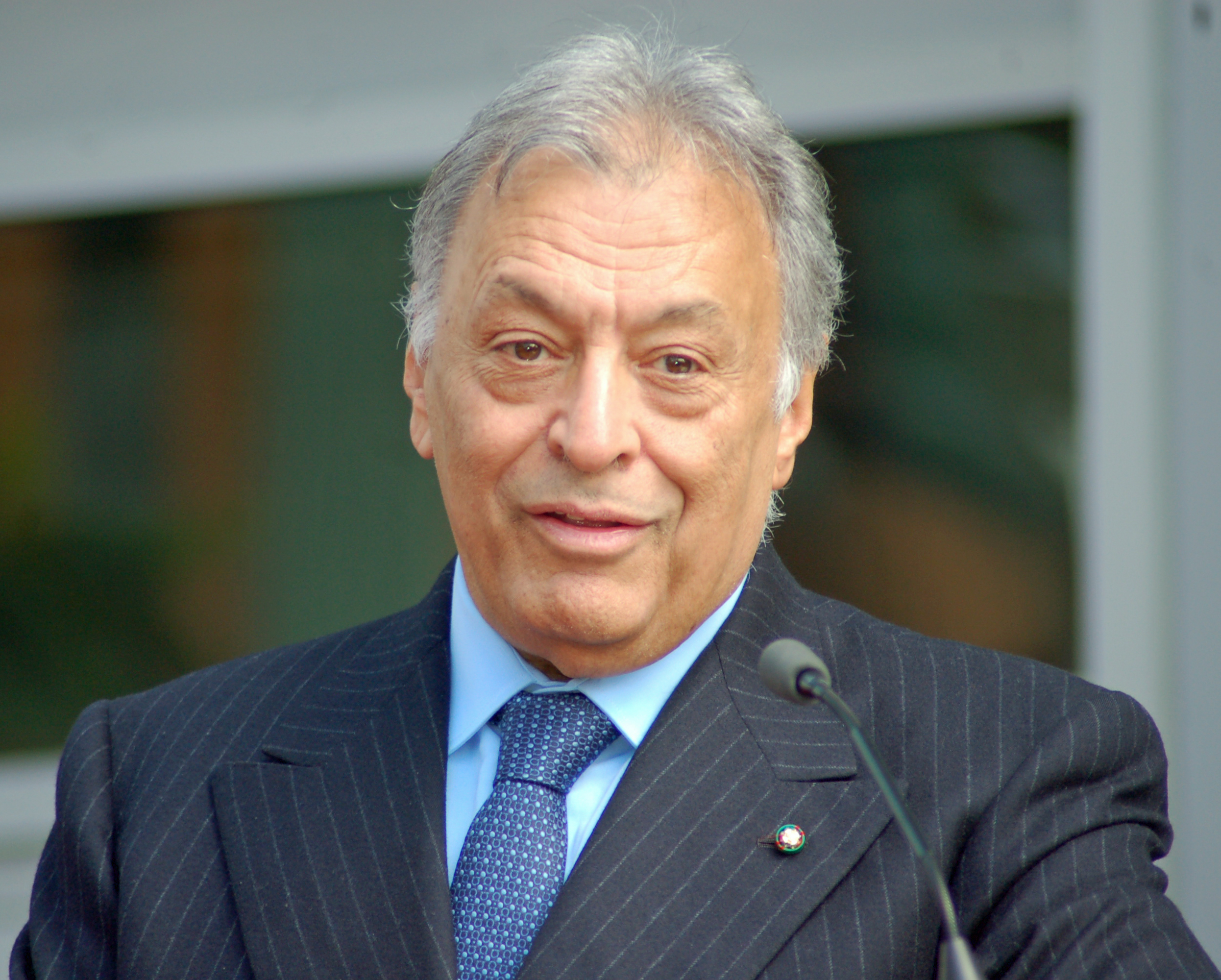 Zubin Mehta at a ceremony to receive a star on the Hollywood Walk of Fame.